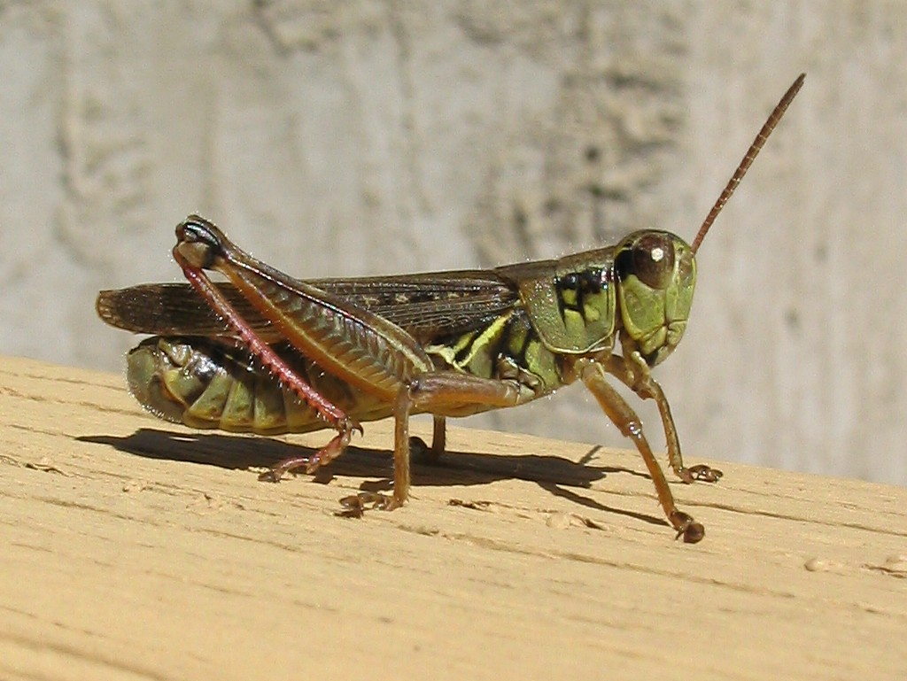 Redlegged Grasshopper ranges over most of North America except for high mountain altitudes and the frigid north. It is the most widely distributed species of the major crop grasshoppers. Its favorite habitats include tall vegetation of grasslands, meadows, crop borders, reverted fields, Conservation Reserve Program lands, and roadsides. It favors low moist weedy areas where its host plants abound.([1])